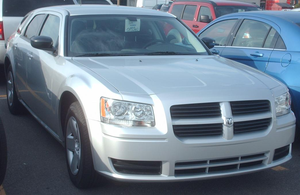 2008 Dodge Magnum photographed in Montreal, Quebec, Canada.